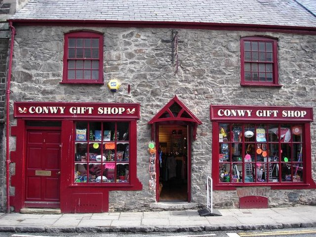 Conwy gift shop In the centre of town this brightly coloured gift shop is one of many aimed at the tourists who flock to the town